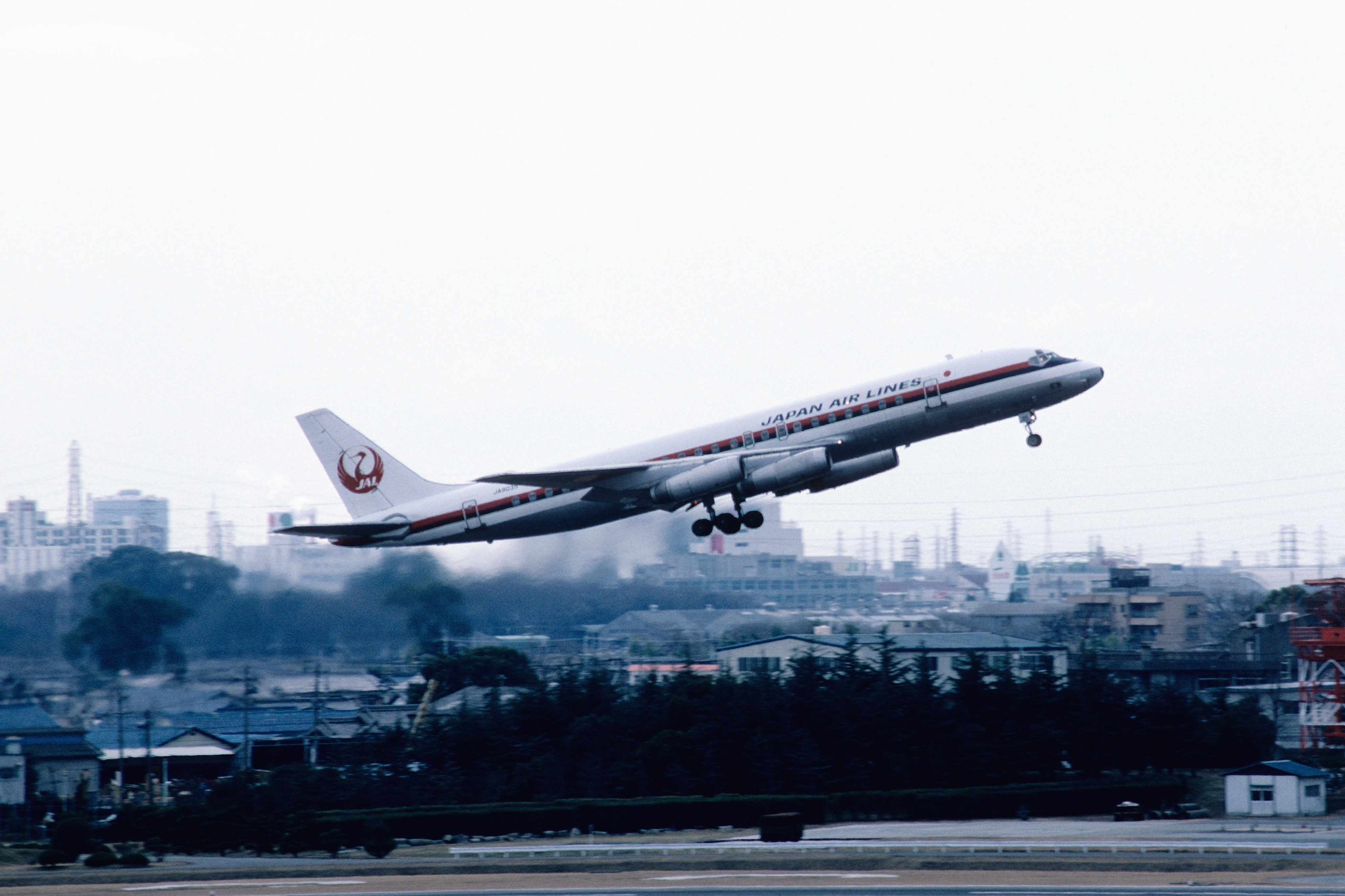 Old Pictures